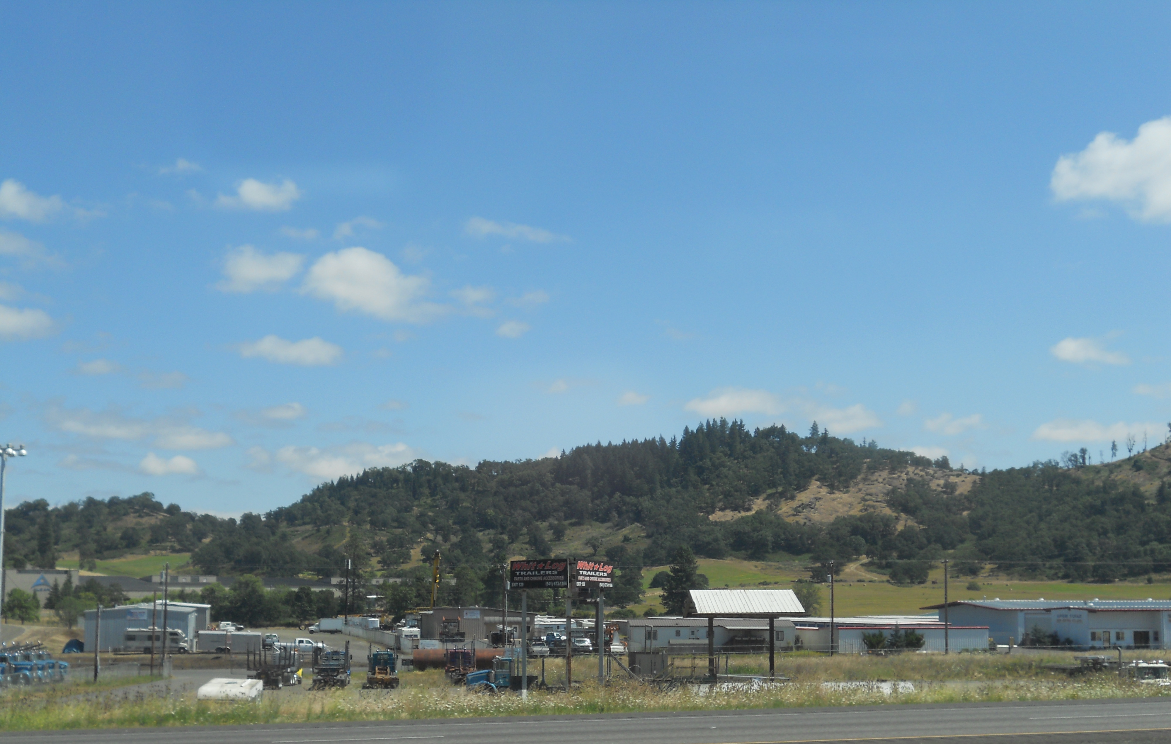 Winchester, an unincorporated community in Douglas County, Oregon, United States